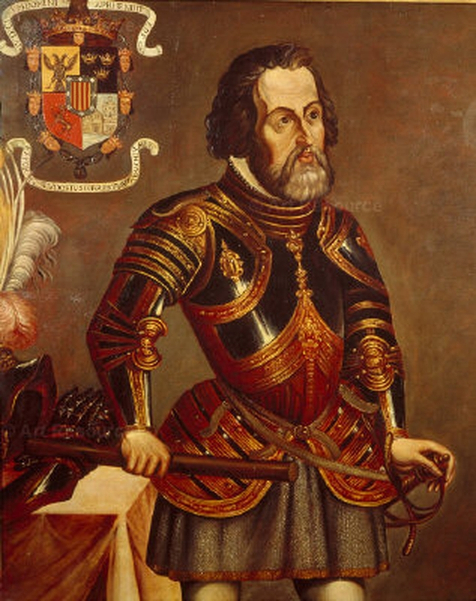 Hernán Cortés